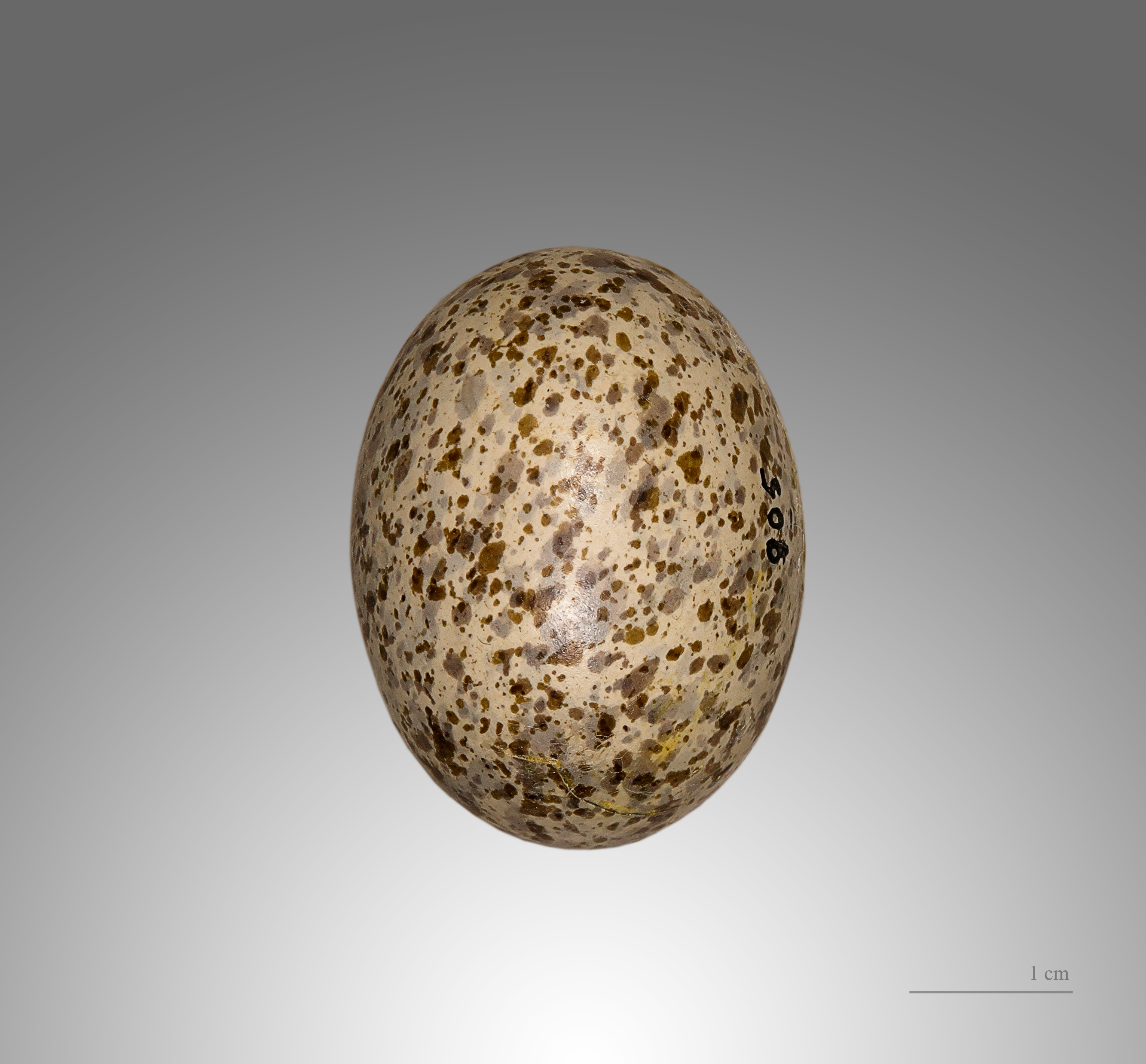 Egg of Four-banded Sandgrouse. Collection of Jacques Perrin de Brichambaut Locality: Niger Niger